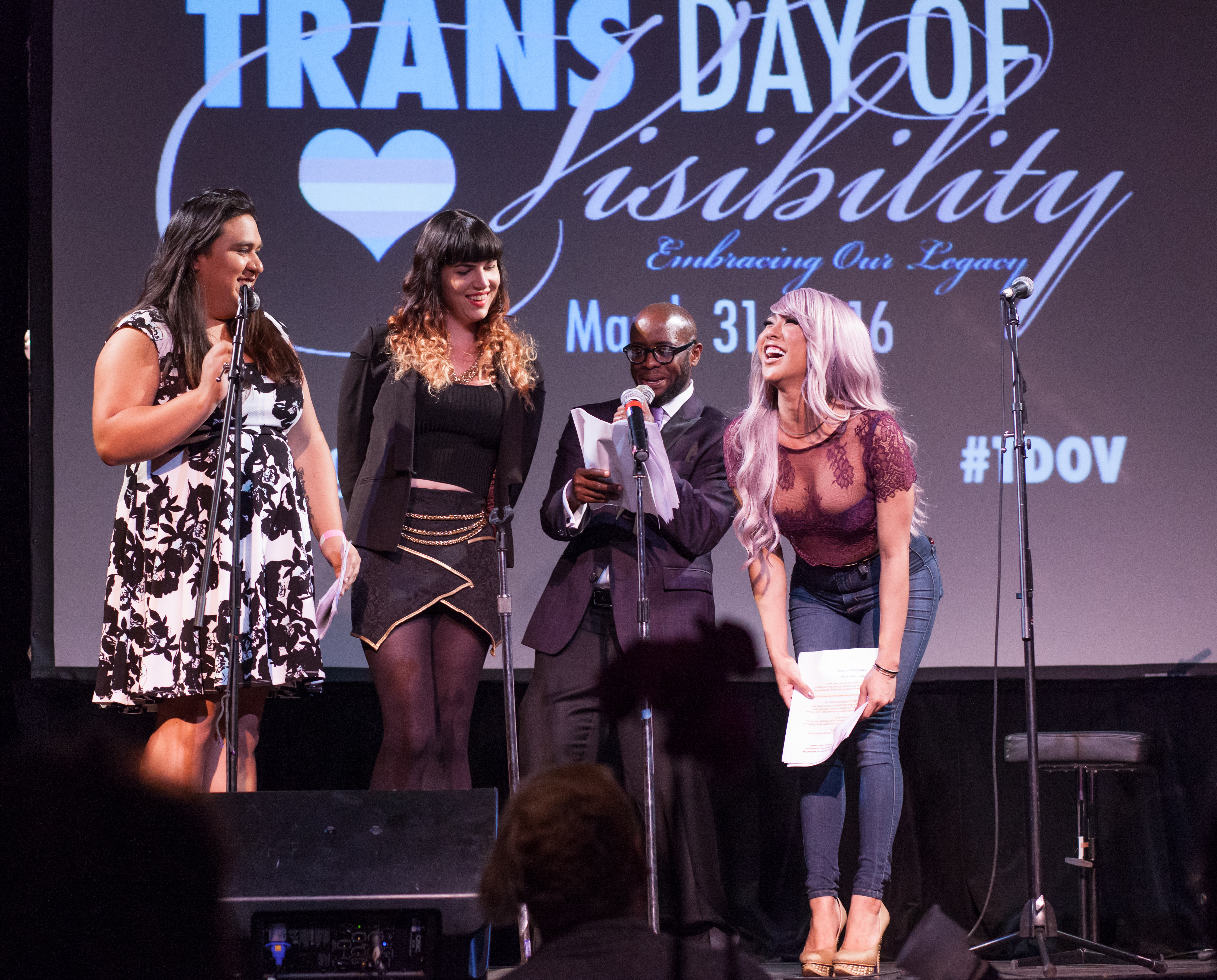 Lexi Adsit, Mia “Tu Mutch” Satya, Shawn Demmons, and Nya emcee the 2016 Trans Day of Visibility celebration in San Francisco.